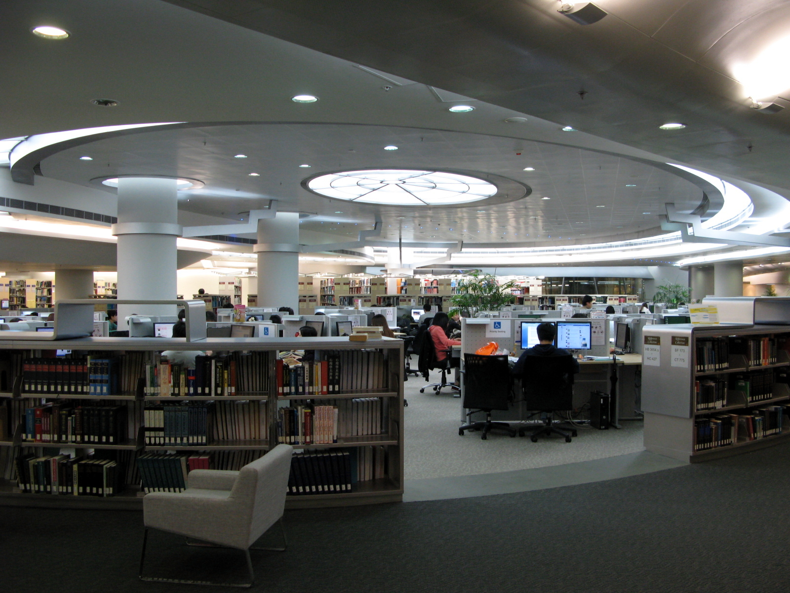 HK City University Run Run Shaw Library Interior